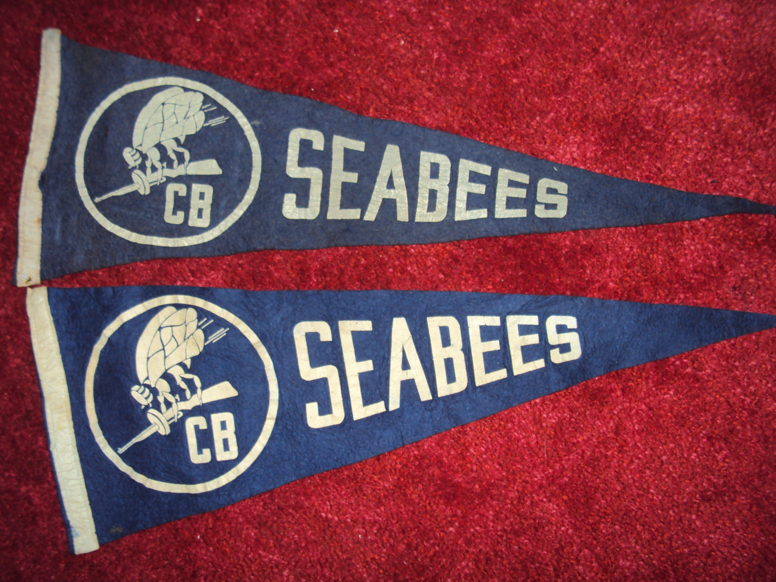 Seabee Logo Pennants early 1942